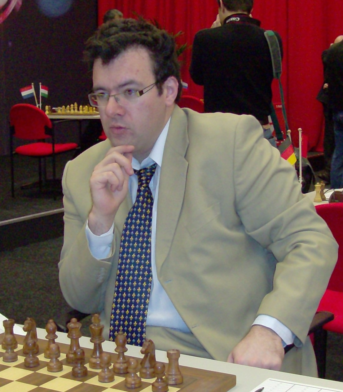 Emil Sutovsky, chess grandmaster from Israel